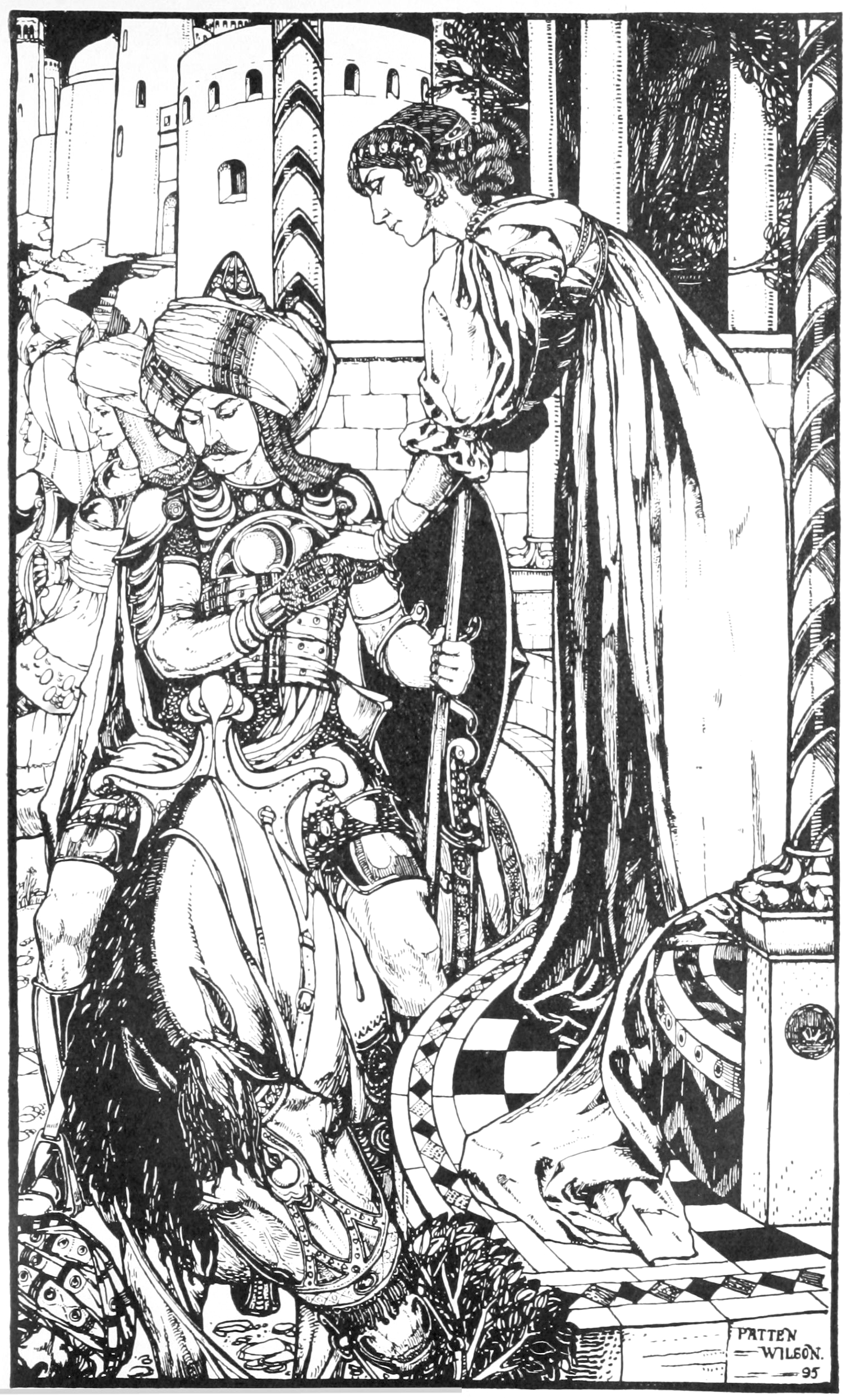 Illustration from Volume 6 of The Yellow Book, "Sohrab Taking Leave of his Mother"